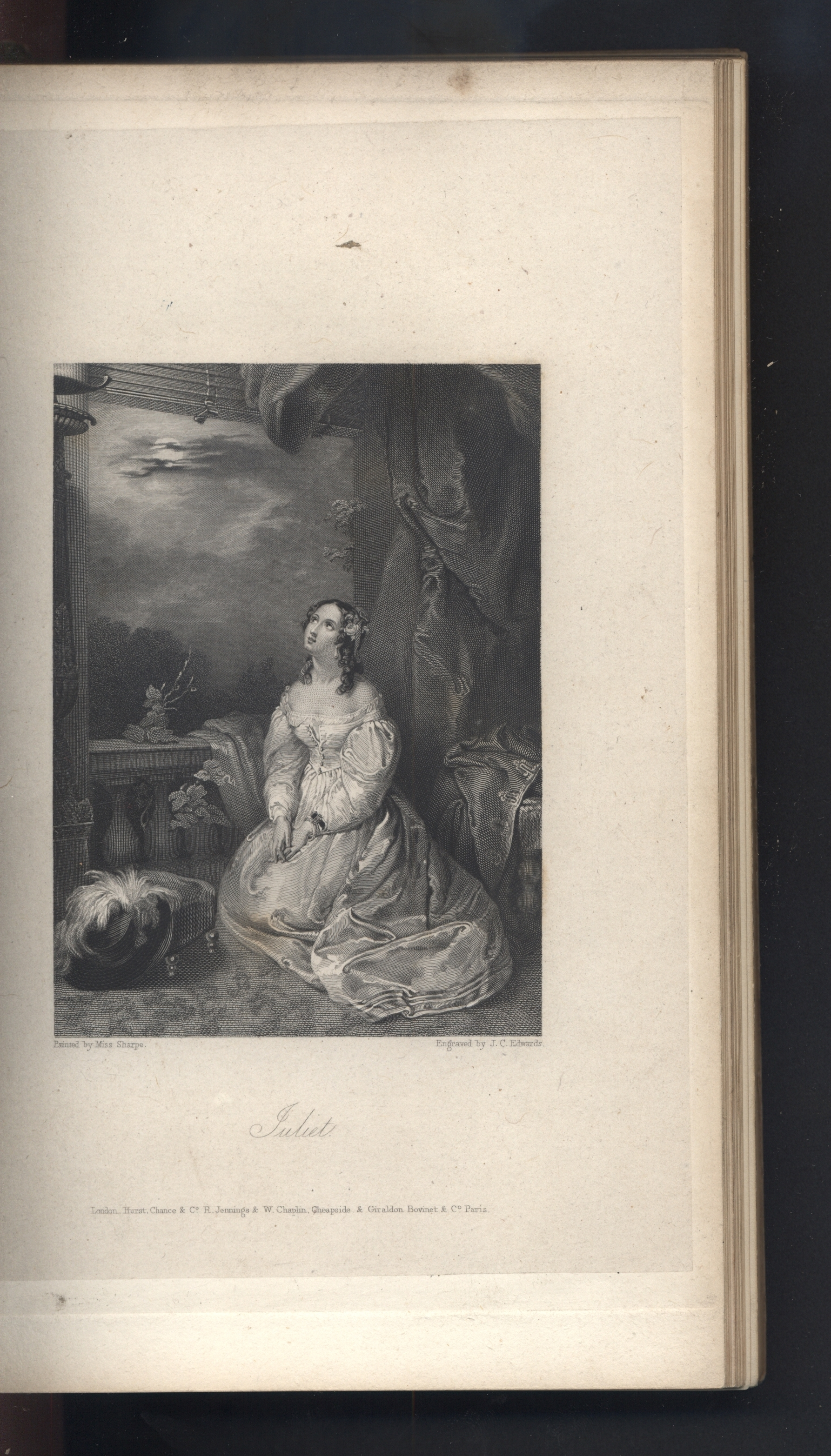 A scan of Juliet, the illustration accompanying Mary Shelley's short story "Transformation" in The Keepsake for 1831 (published late 1830).